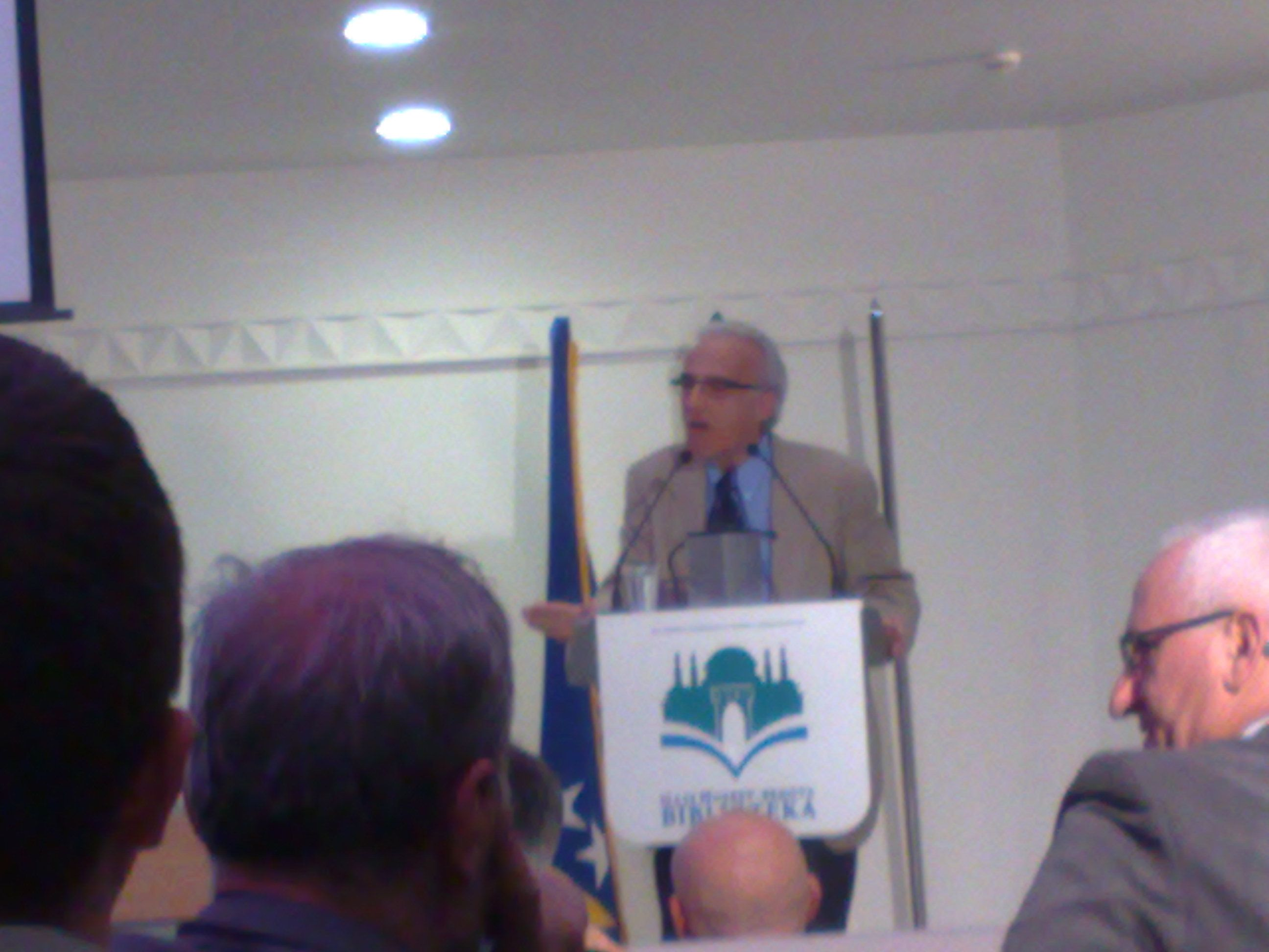 John Esposito in Sarajevo, October 2013